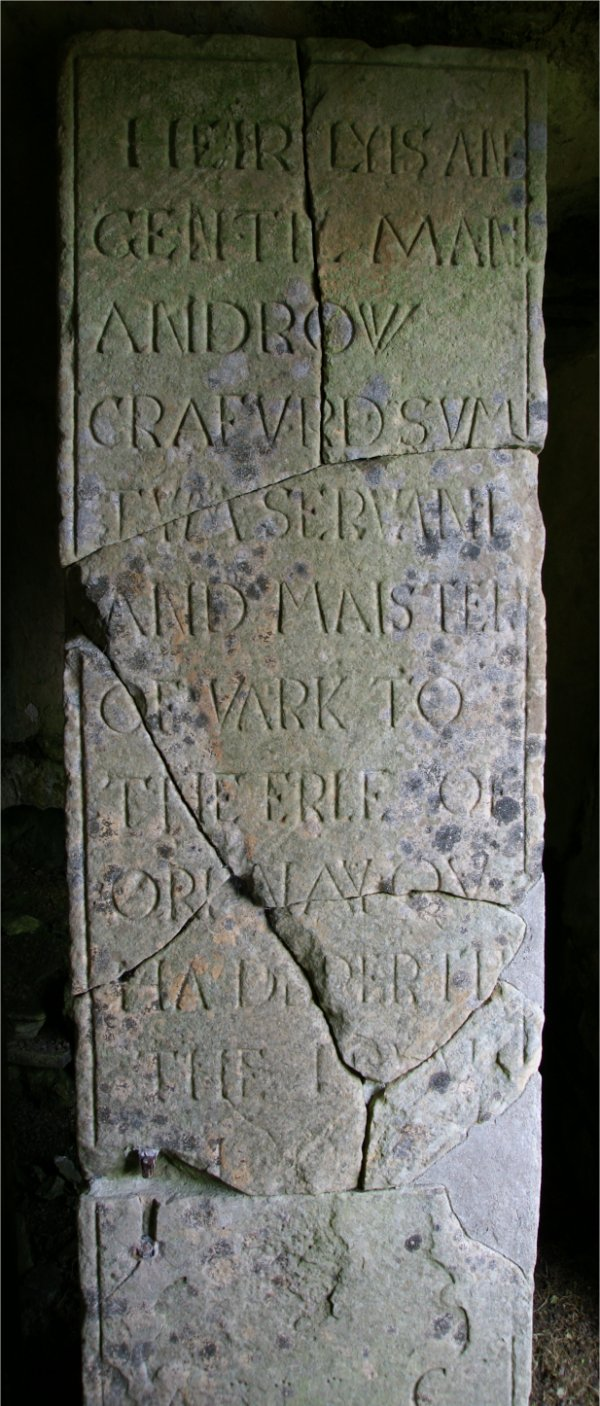 The tombstone of Andrew Crawford, the master builder of Patrick Stewart, Earl of Orkney and Shetland. Architect of The Earl's Palace (Kirkwall), Scalloway Castle and Muness Castle (Unst).